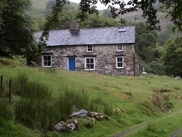 Bron-y-aur. Bron-y-aur Cottage near Machynlleth, Wales. I was out on pilgrimage with my wife to visit a part of Led Zeppelin's history... Māori: Ko Bron-y-aur, tētahi whare kei tata i Machynlleth i Wēra.